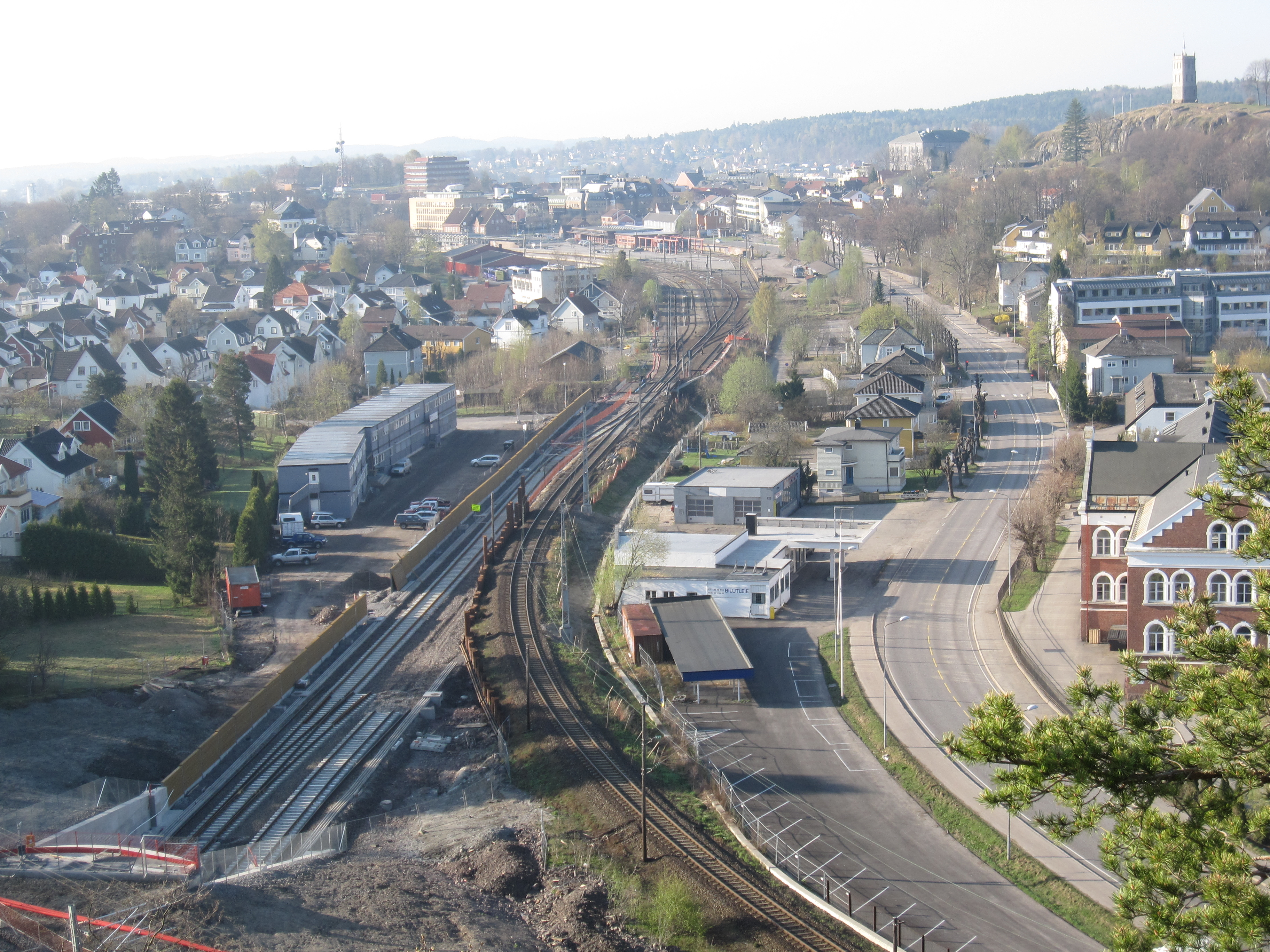 View of Tønsberg and its railway station which is currently undergoing some changes, with a new tunnel being excavated through Frodeåsen to allow trains an easier route into town. The new tracks, seen emerging from the tunnel on the left, will come into use in November 2011.